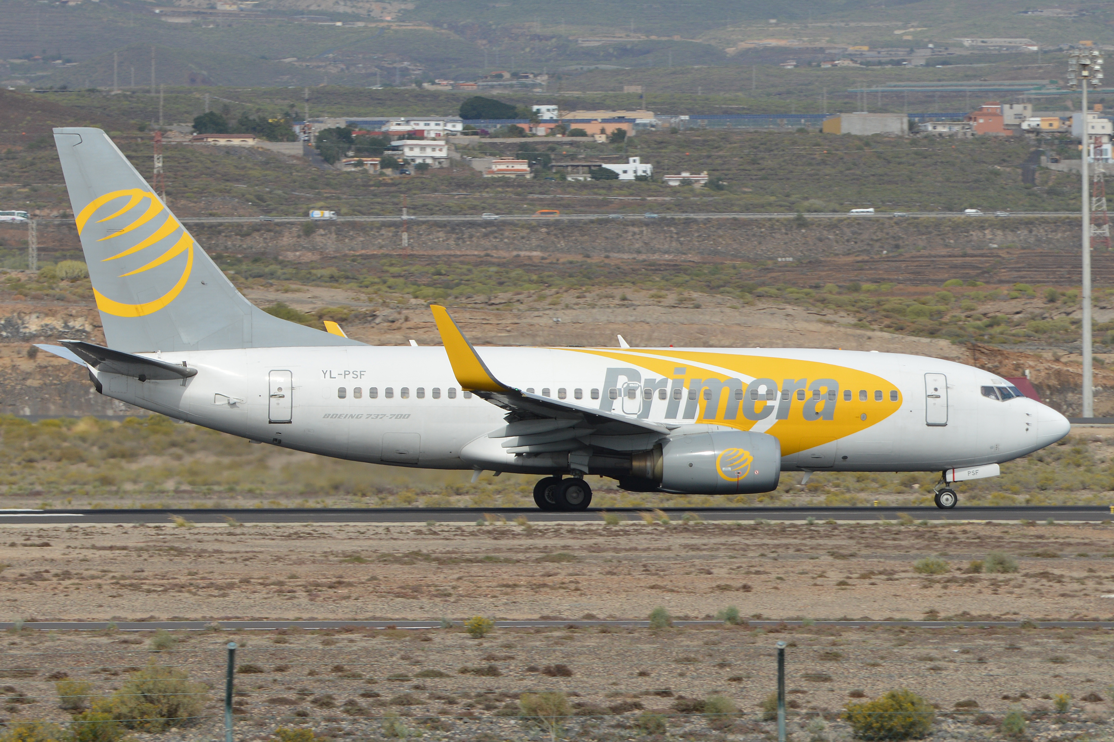 c/n 28210, l/n 22. Built 1998. Departing on flight PRI522 to Aalborg. Tenerife South Airport, Tenerife. 17-1-2016